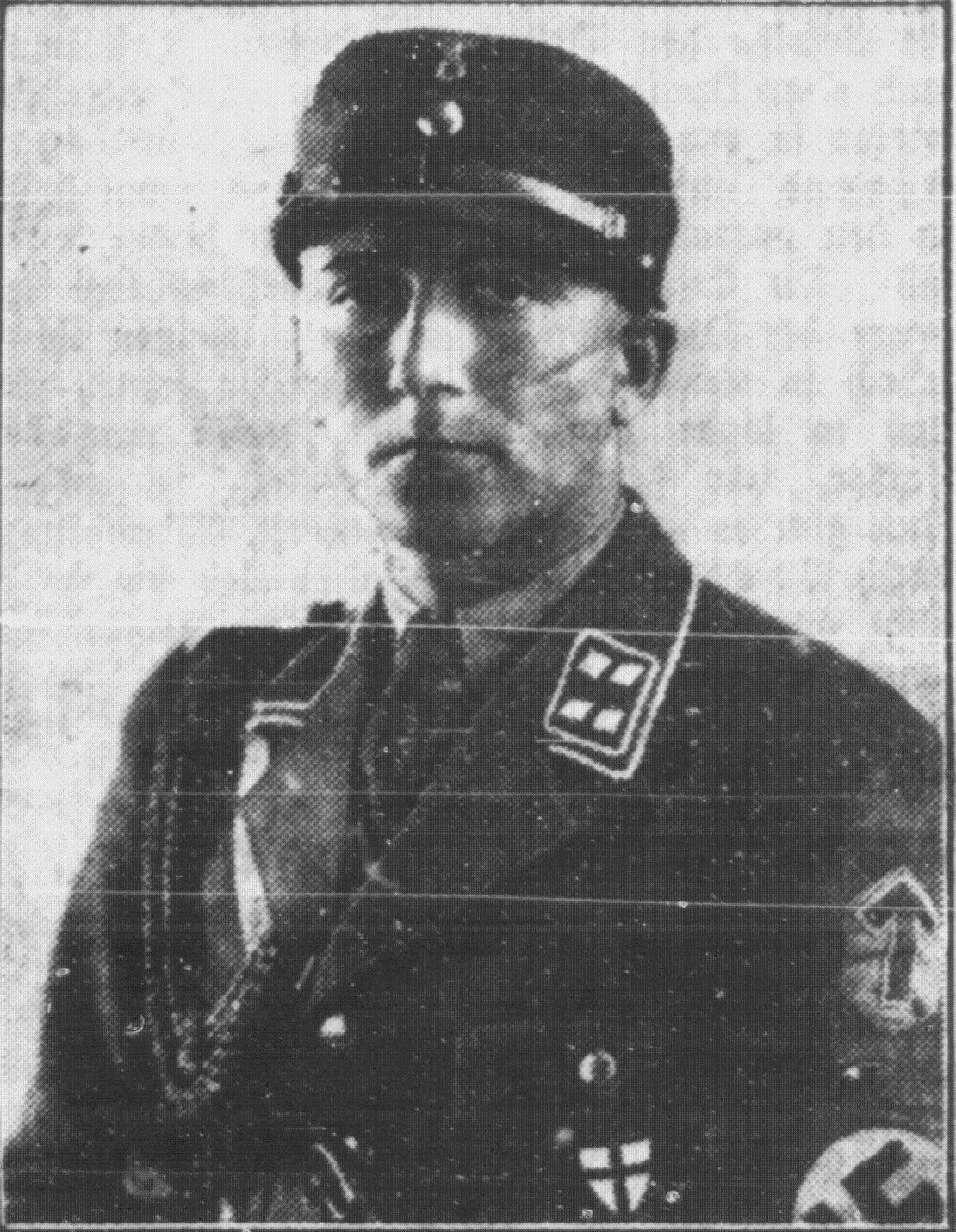 SA Sturmbannführer Gerhard Sudheimer as aide-de-camp of the Chief ot the Berlin SA in 1933.